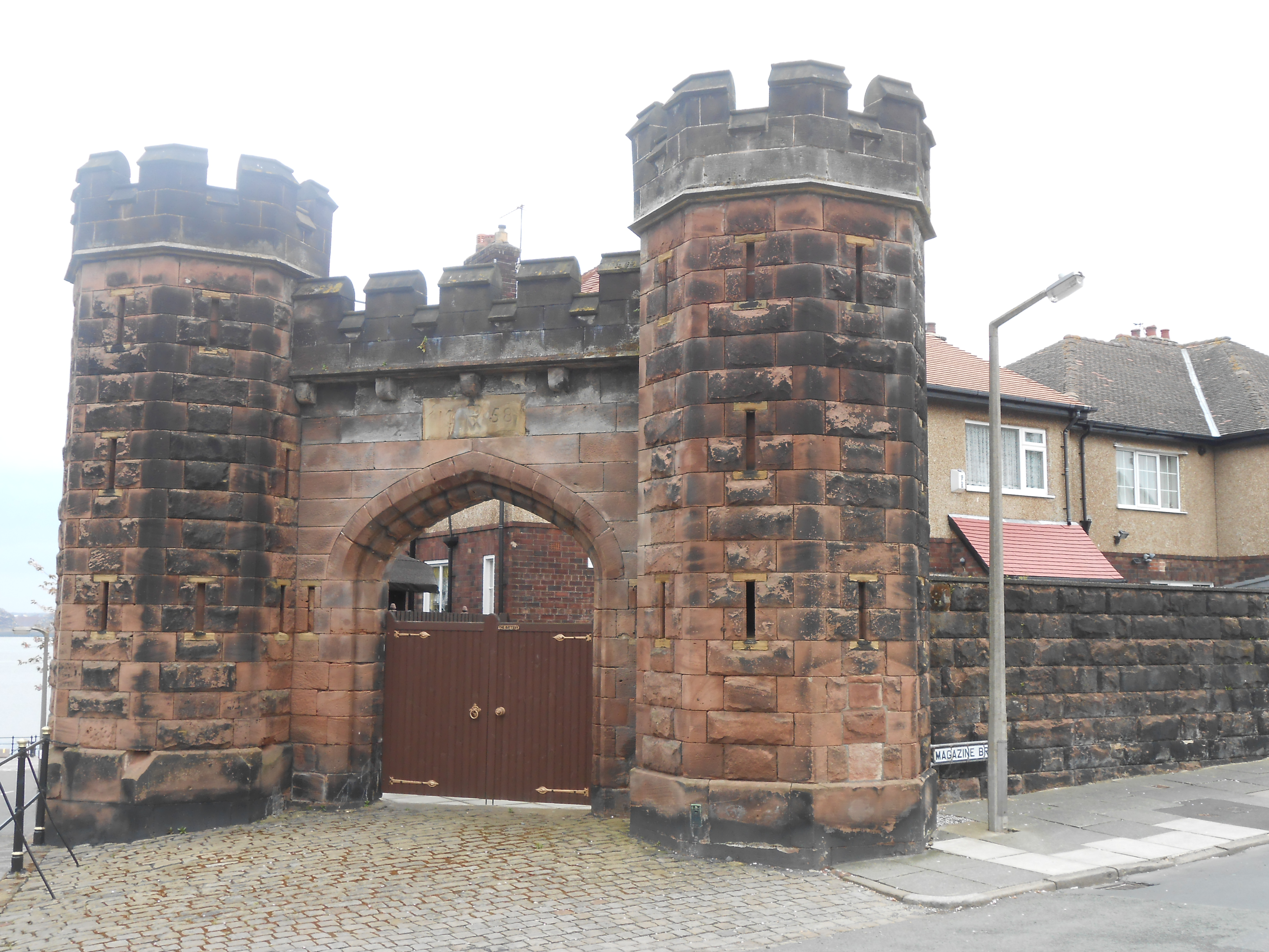 Magazines Fort Gateway, Wallasey, Wirral, Merseyside, England.